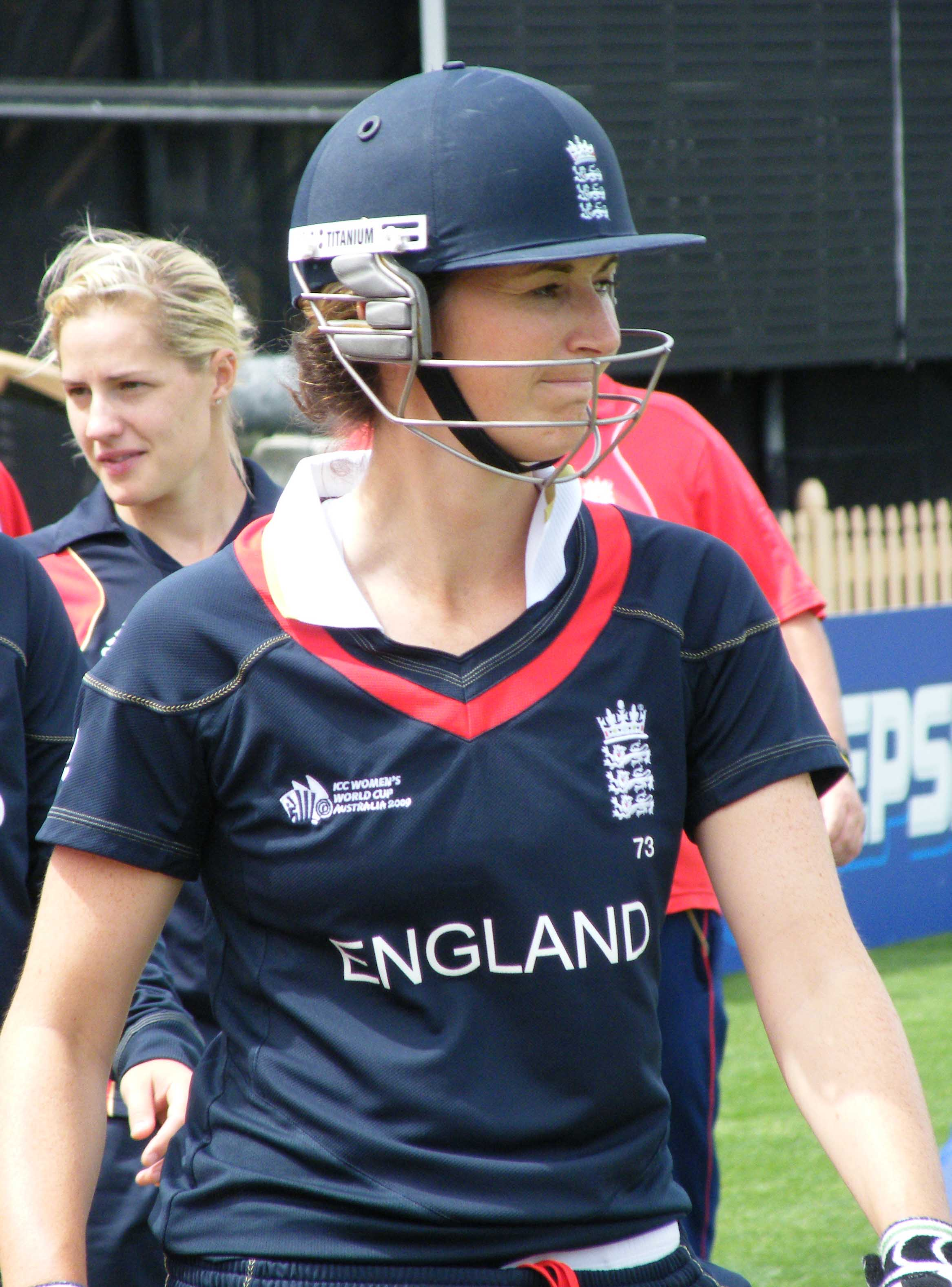 Charlotte Edwards waiting to bat during the 2009 Women's Cricket World Cup in Sydney.